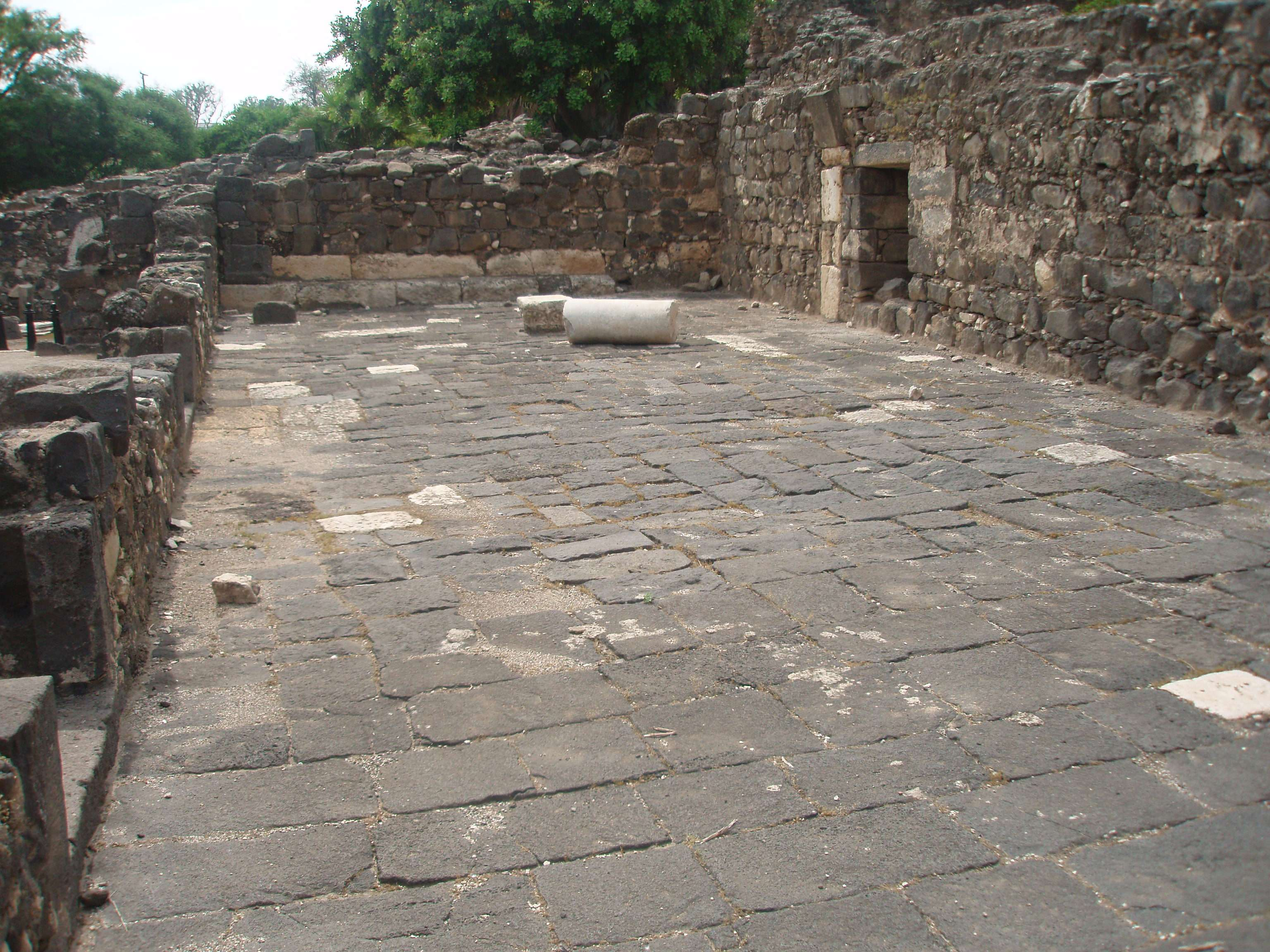 Synagogue courtyard in Hamat Tiberias, Israel.